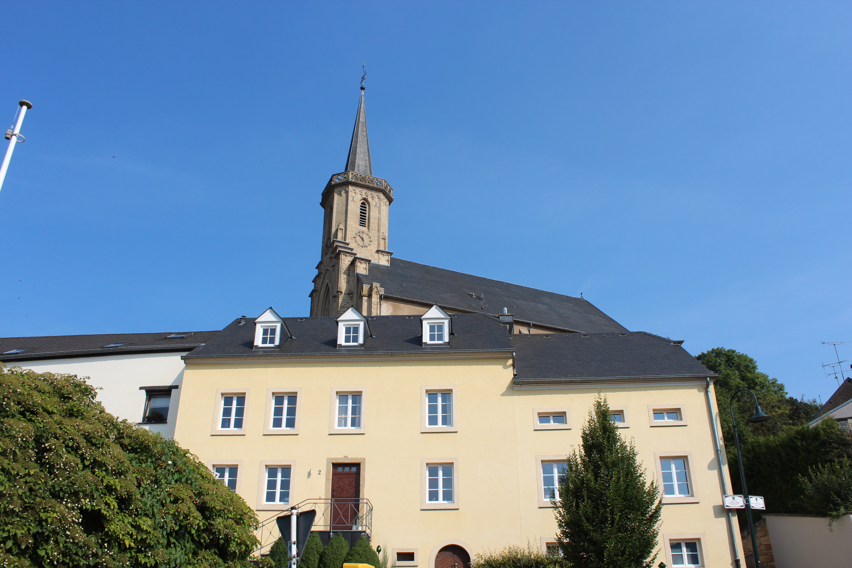 Downtown Fischbach, Luxembourg.